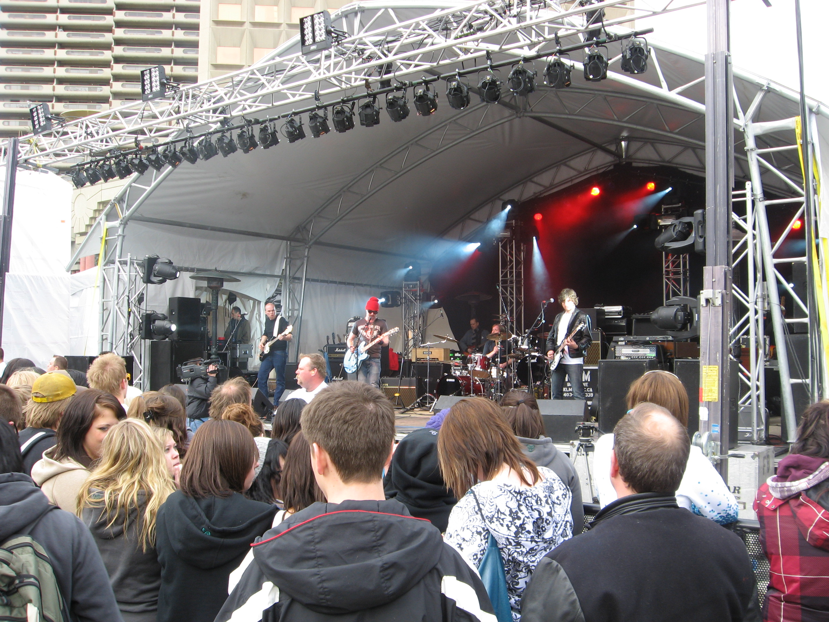 Calgary Indie band "The Dudes" performing at Olympic Plaza on Canada Day, 2007